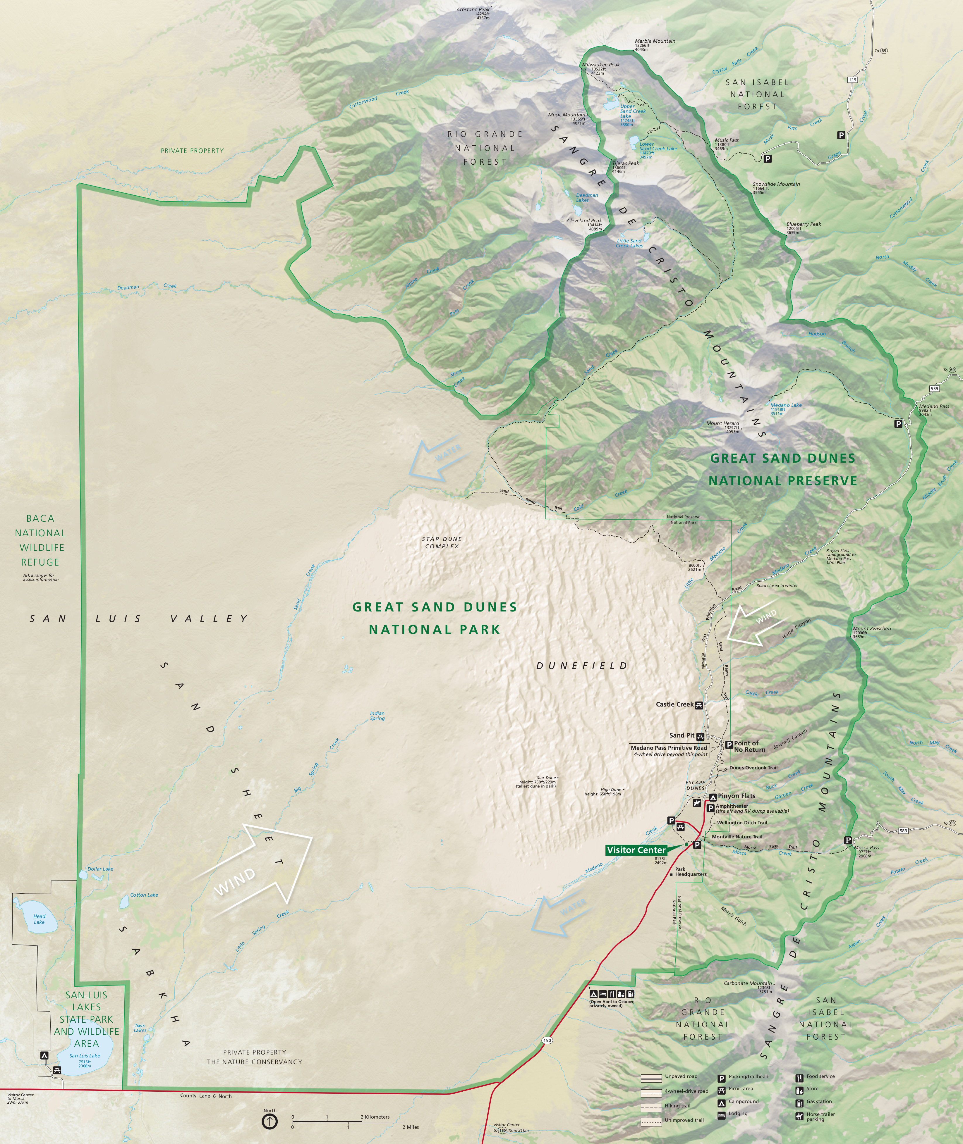 Complete Great Sand Dunes map from the official brochure, showing the dune field as well as the Sangre de Cristo Mountains.